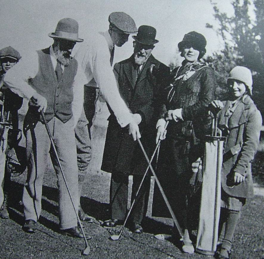 Brancusi, Rochet & Erik Satie - plays Golf (Fontainebleau)